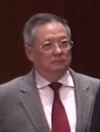 中文（香港）: Tommy Cheung, member of the Legislative Council of Hong Kong